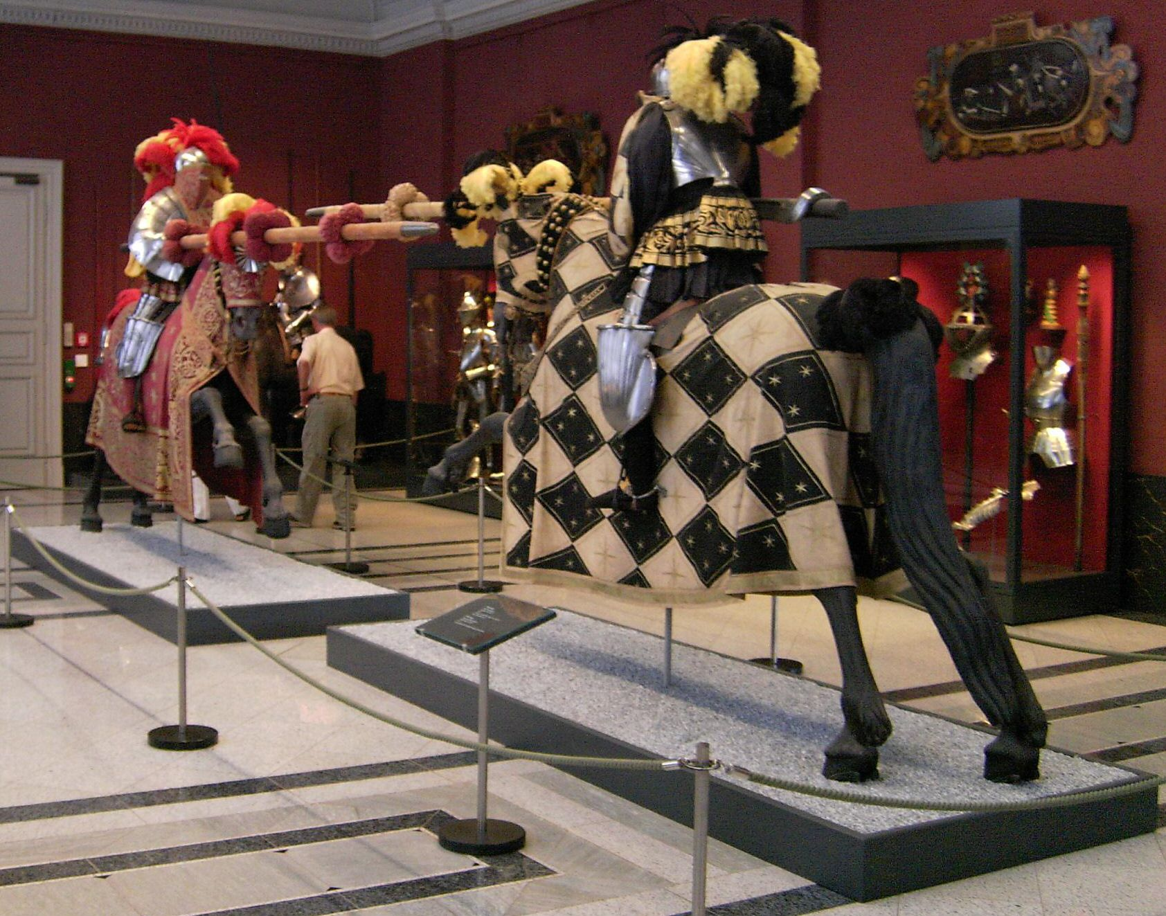 16th or 17th century armour and weapons. Jouste - Tjost - Turnier; museum Zwinger, Dresden.